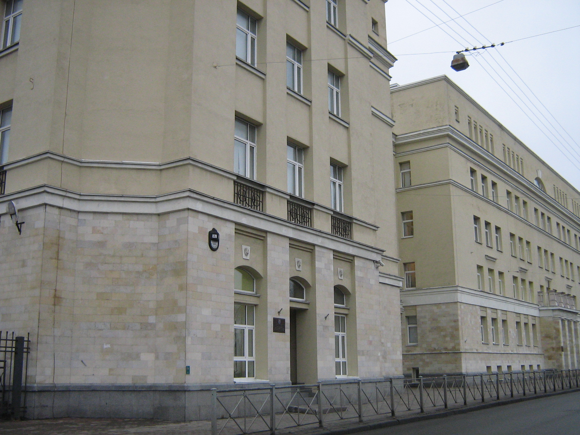 Saint Petersburg (Russia), Admiralteysky District